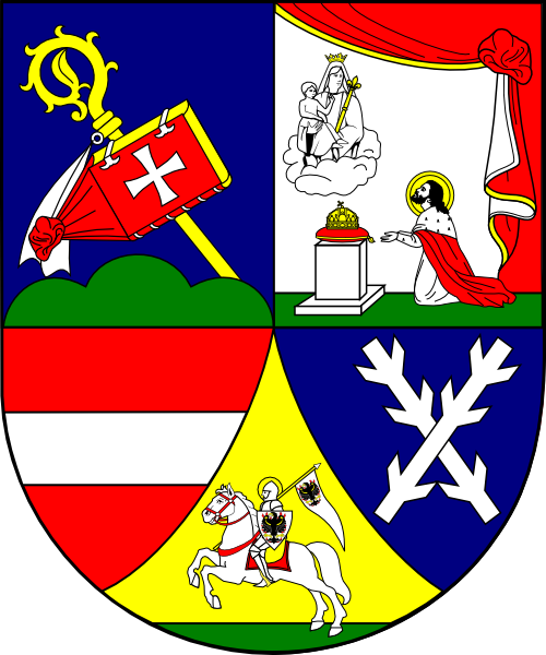 Coat of arms (shield only) of Andreas Wenzel, abbot of Schottenstift (Scottish Abbey), Vienna (1807 - 1831). Based on ZELENKA, Aleš: Die Wappen der wiener Schottenäbte, p. 26 and on relief on the tympanum of Schottenstift